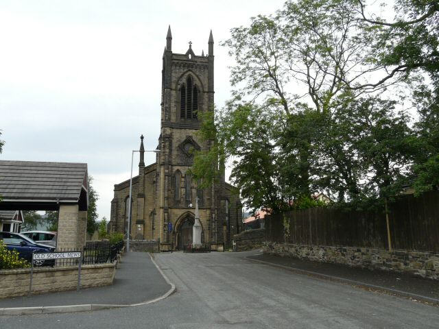 St John the Evangelist's parish church, Dukinfield, Greater Manchester, seen from the west from Vicarage Drive